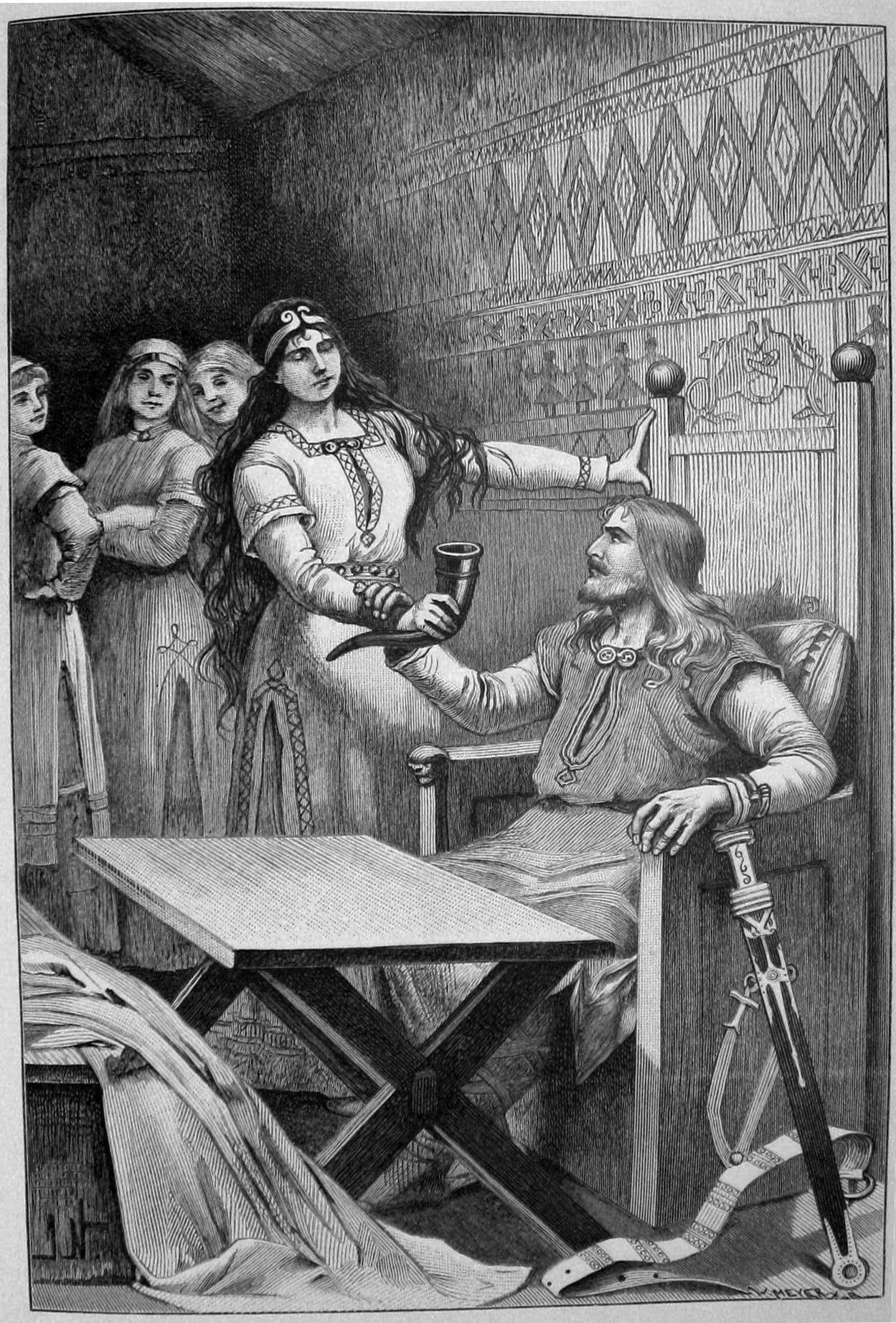 The engraving shows Sigrdrífa-Brynhildr bringing a drinking horn to Sigurðr. Three other women look on. In the bottom left corner there is the signature of Jenny Nyström (1854-1946), the illustrator. In the bottom left corner there is the signature "W. Meyer X.A." indicating that the wood engraving is from Wilhelm Meyer's (1844-1944) xylography company. Since there is no other signature, it is reasonable to assume that Meyer did this engraving himself. The image list on page 468 in the book describes this image as Sigurd hos Brynhild.